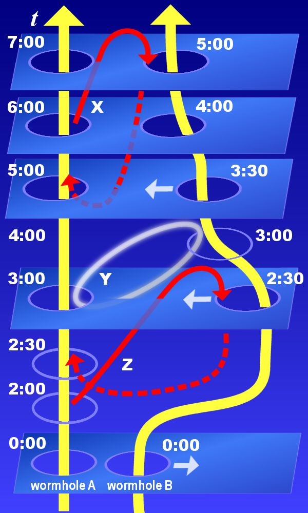 Time travel hypothesis ; using wormholes.